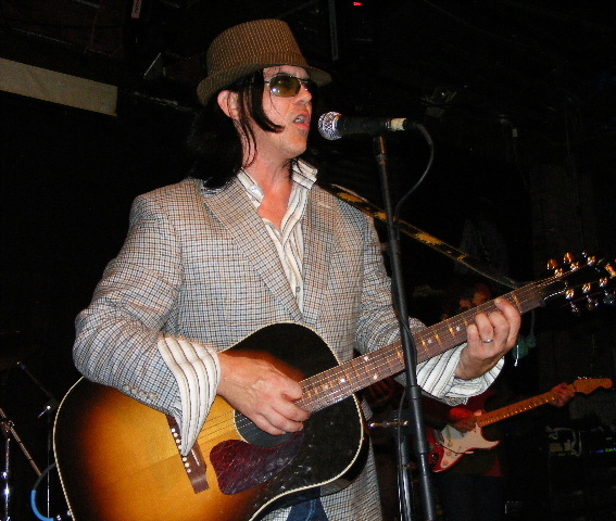 Mike Farris at Antone's in Austin, Texas (2009). Photo by Ron Baker.